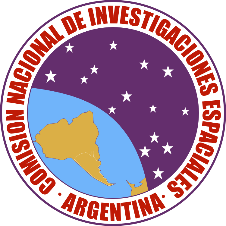 Former logo of the National Committee of Space Investigations of Argentina used until 1991.